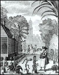 Botanic gardens of Sonnenborgh (17th century)